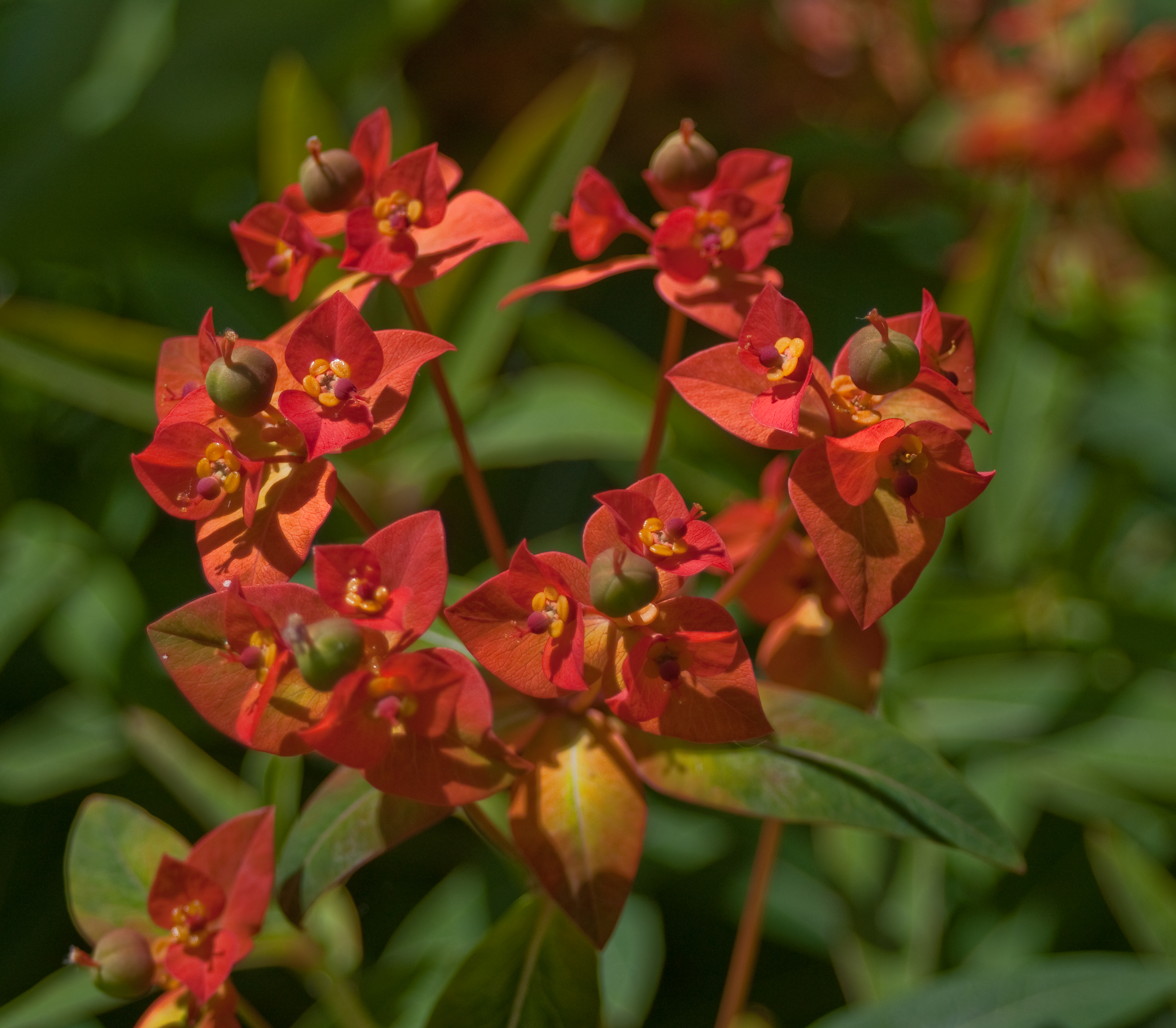 Euphorbia griffithii, photographed in the gardens of Forde Abbey, Somerset, UK. This may be the cultivar, "Fireglow".